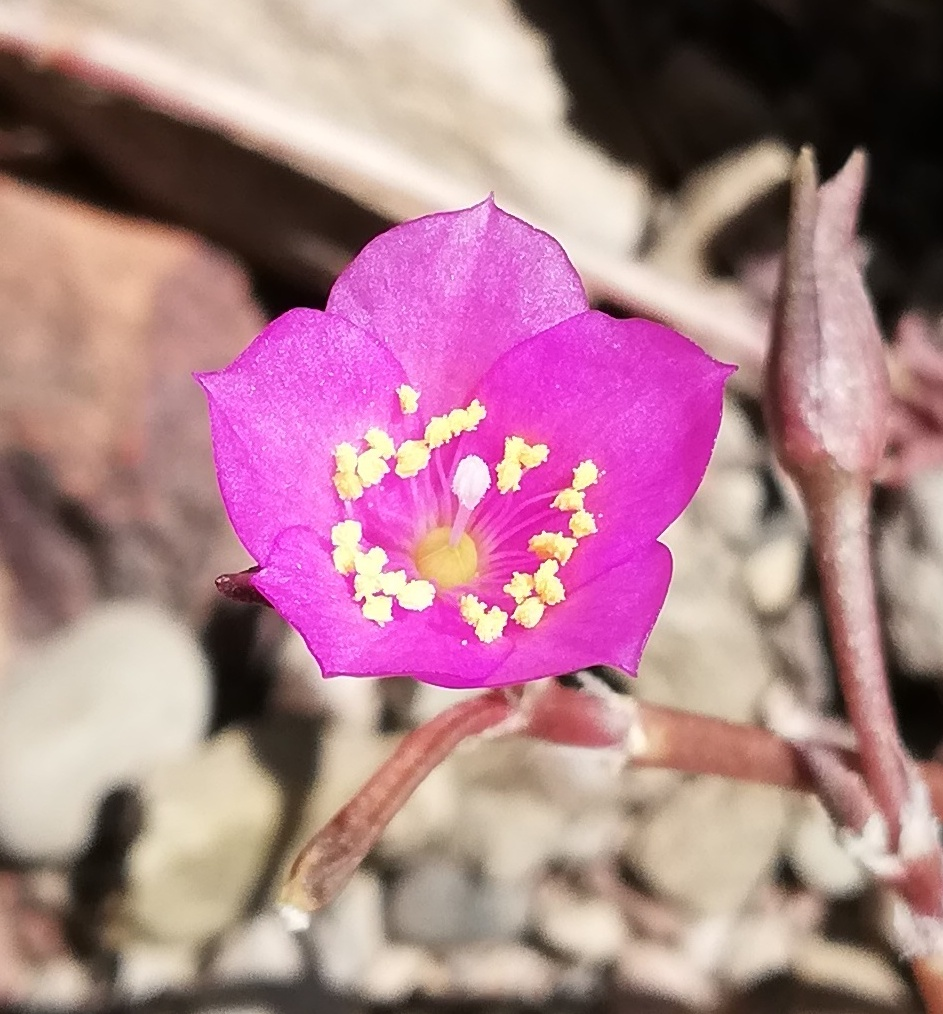 Anacampseros telephiastrum flower from near the town of Bonnievale, South Africa. Broadly ovate petals, pink or white colour and 30-45 stamens are diagnostic for this species.